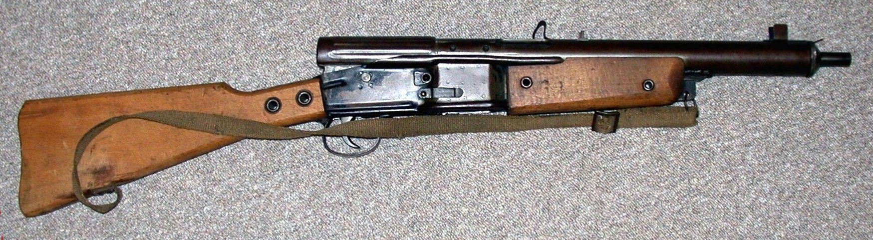 German Volkssturm-Rifle VG 1-5